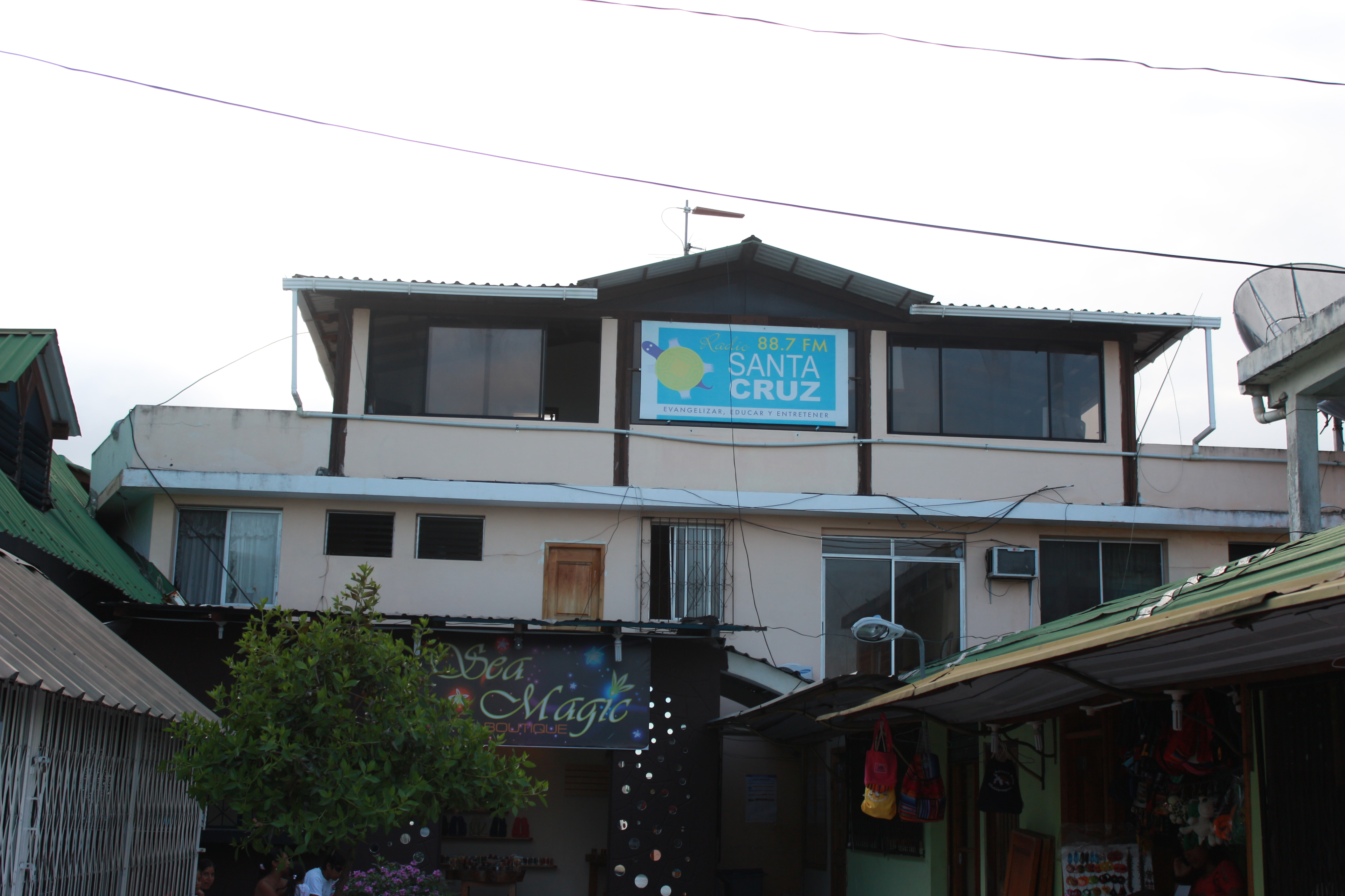 Headquarter of Radio Santa Cruz FM (Puerto Ayora, Santa Cruz, Galápagos, Ecuador)